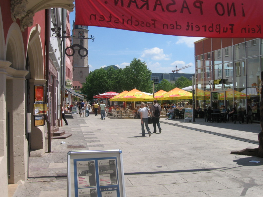 Jena. The recently rebuilt central city area under the Jen-Tower.